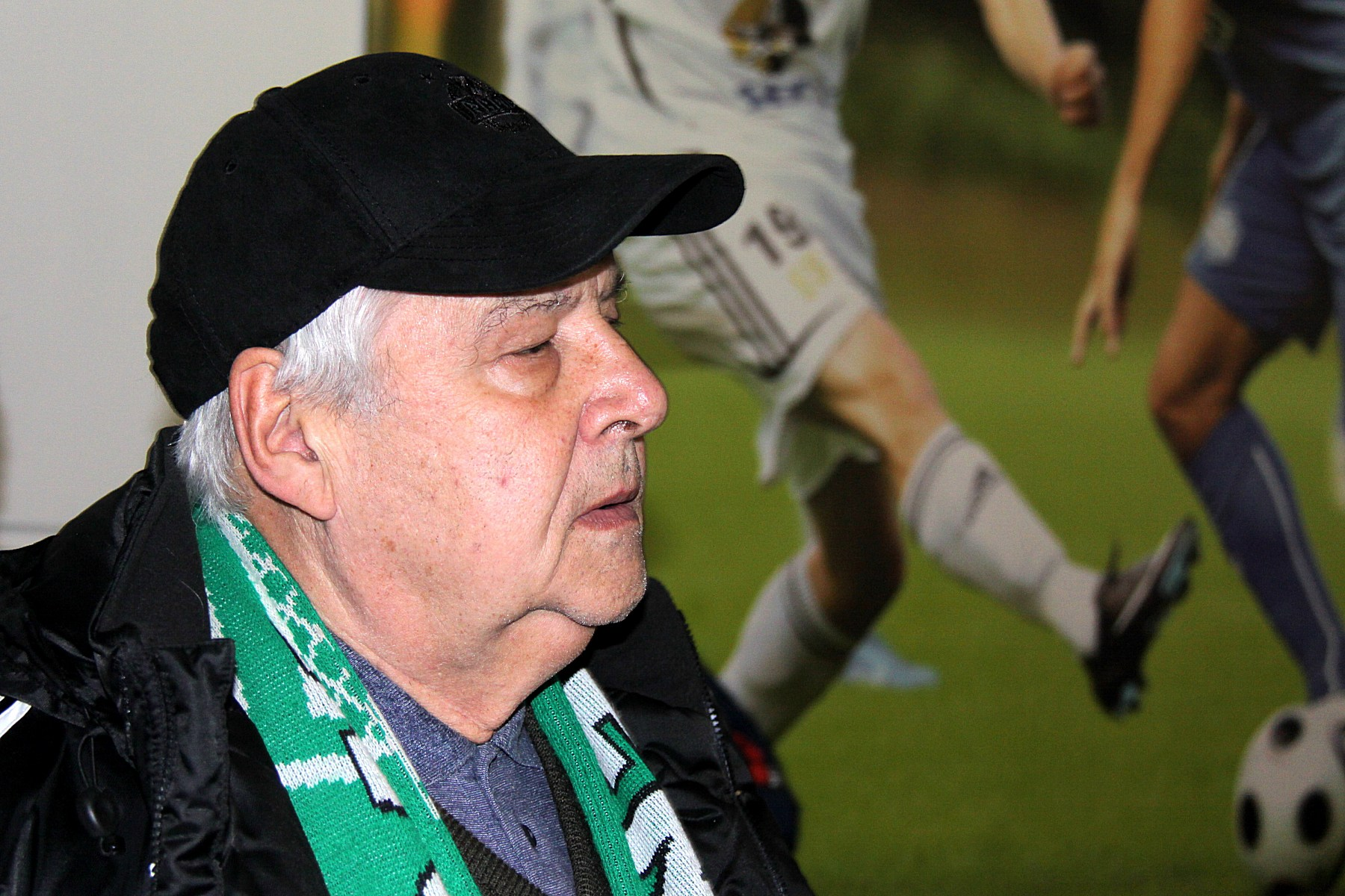 Rudolf Edlinger - President of SK Rapid Wien